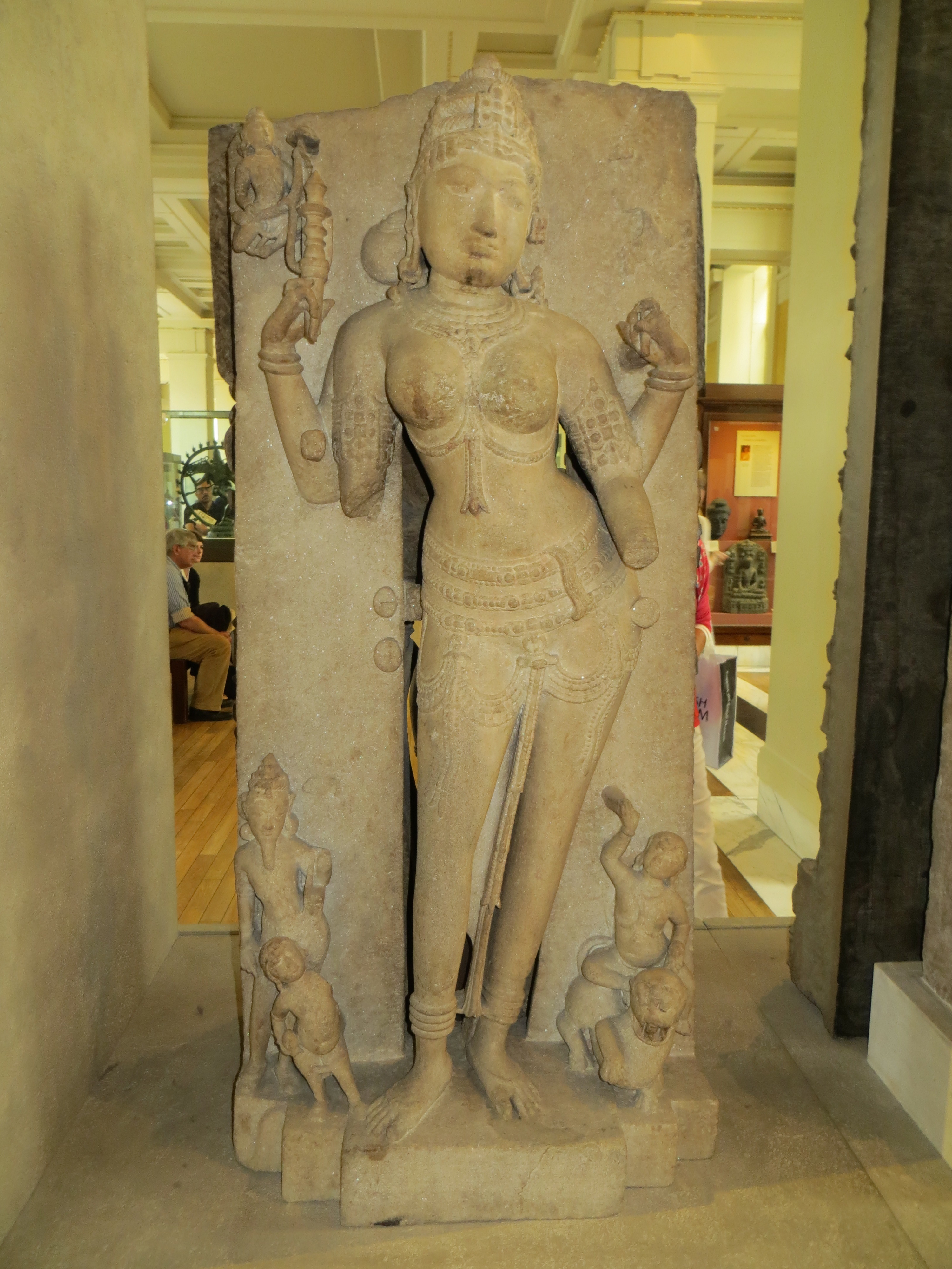 Goddess Ambika from Dhar in the British Museum